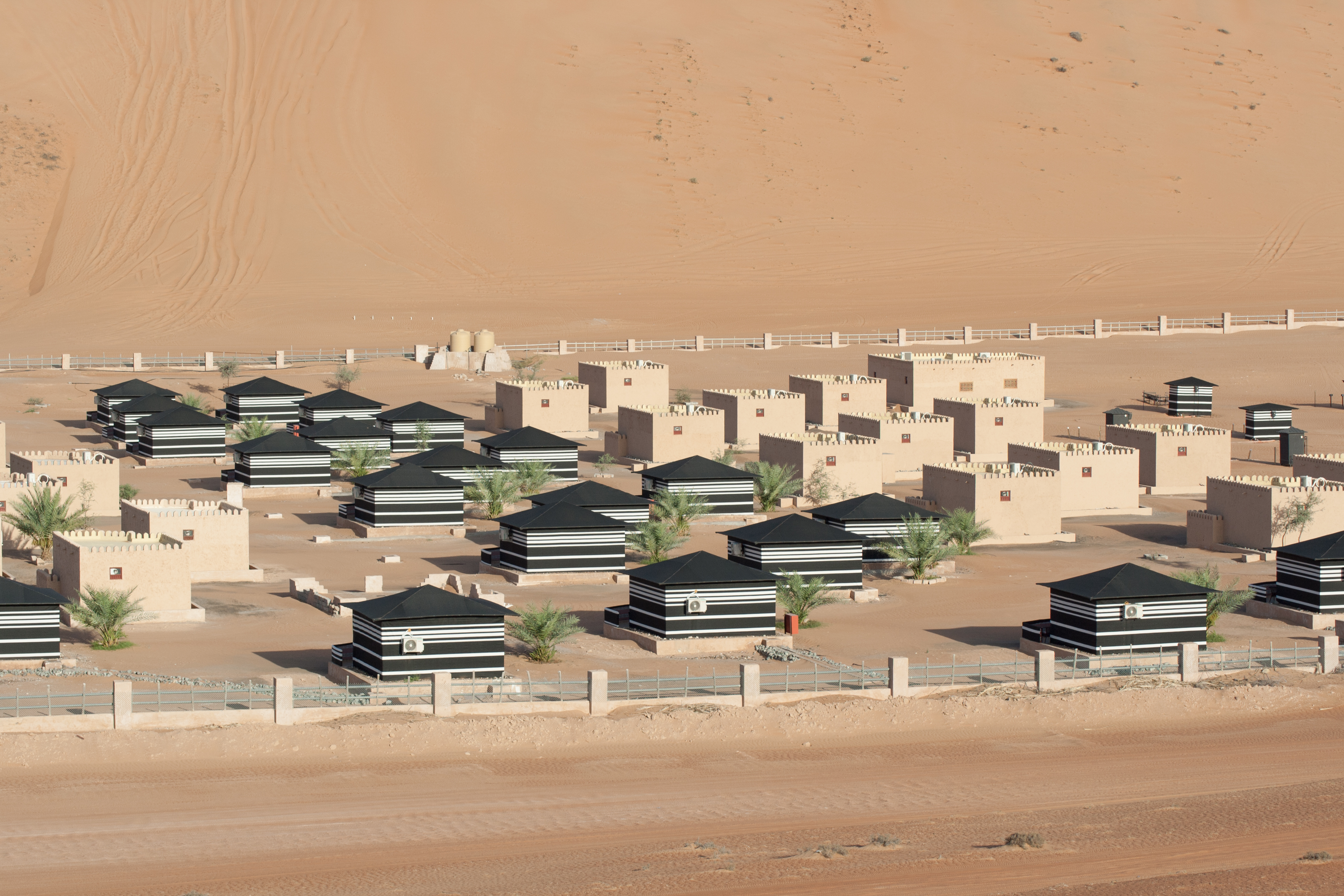 Desert camp in the Wahiba Sands, Oman